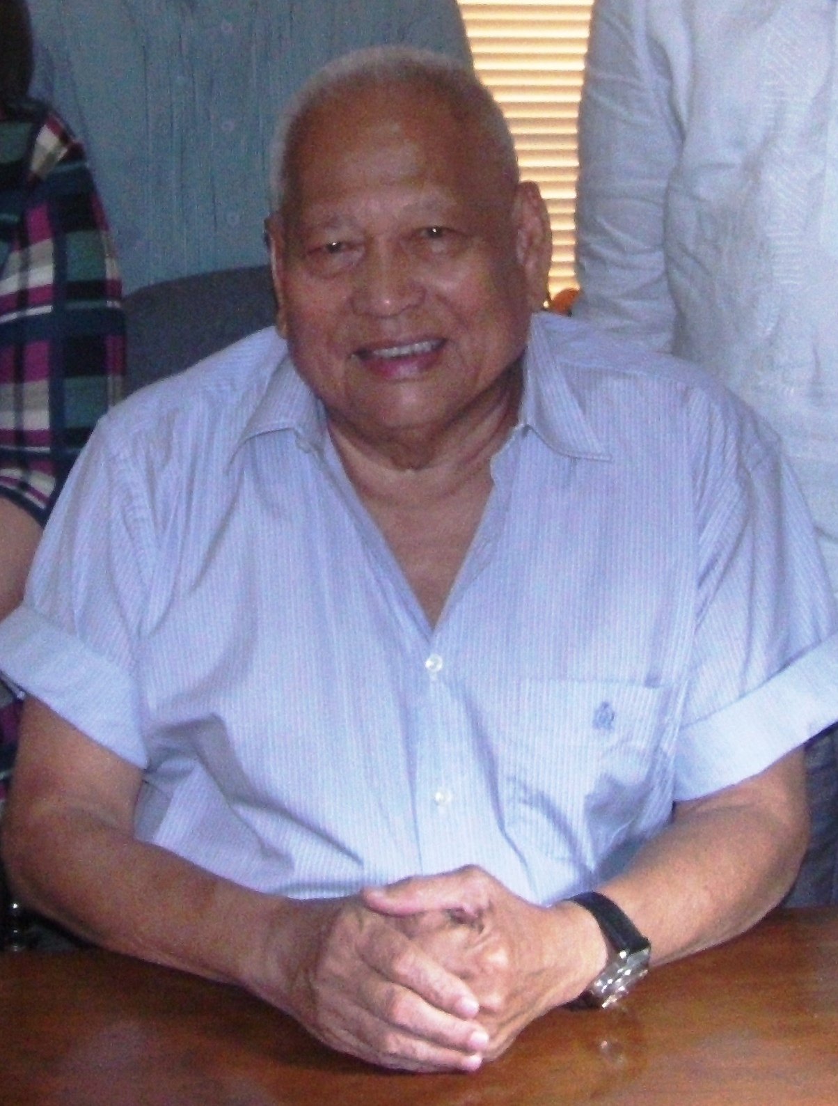 The Foreign Service Officer (FSO) Cadets of Batch Salinlahi completed their module on National Security with a courtesy call on Brigadier General Jose T. Almonte on 07 November 2014. FSI Assistant Director Julio S. Amador III and Core team members Amarie C.Zaldivar and Ken Edward H. Concepcion accompanied the batch.